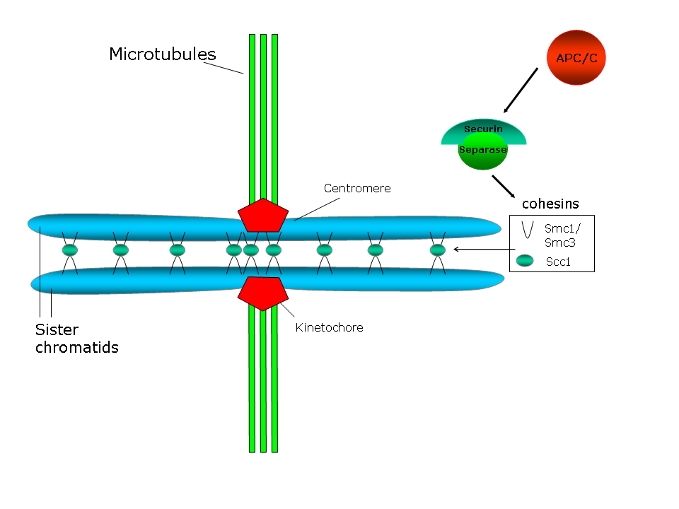 Scheme showing molecules implicated in sister chromosome cohesion. Realized in PowerPoint.